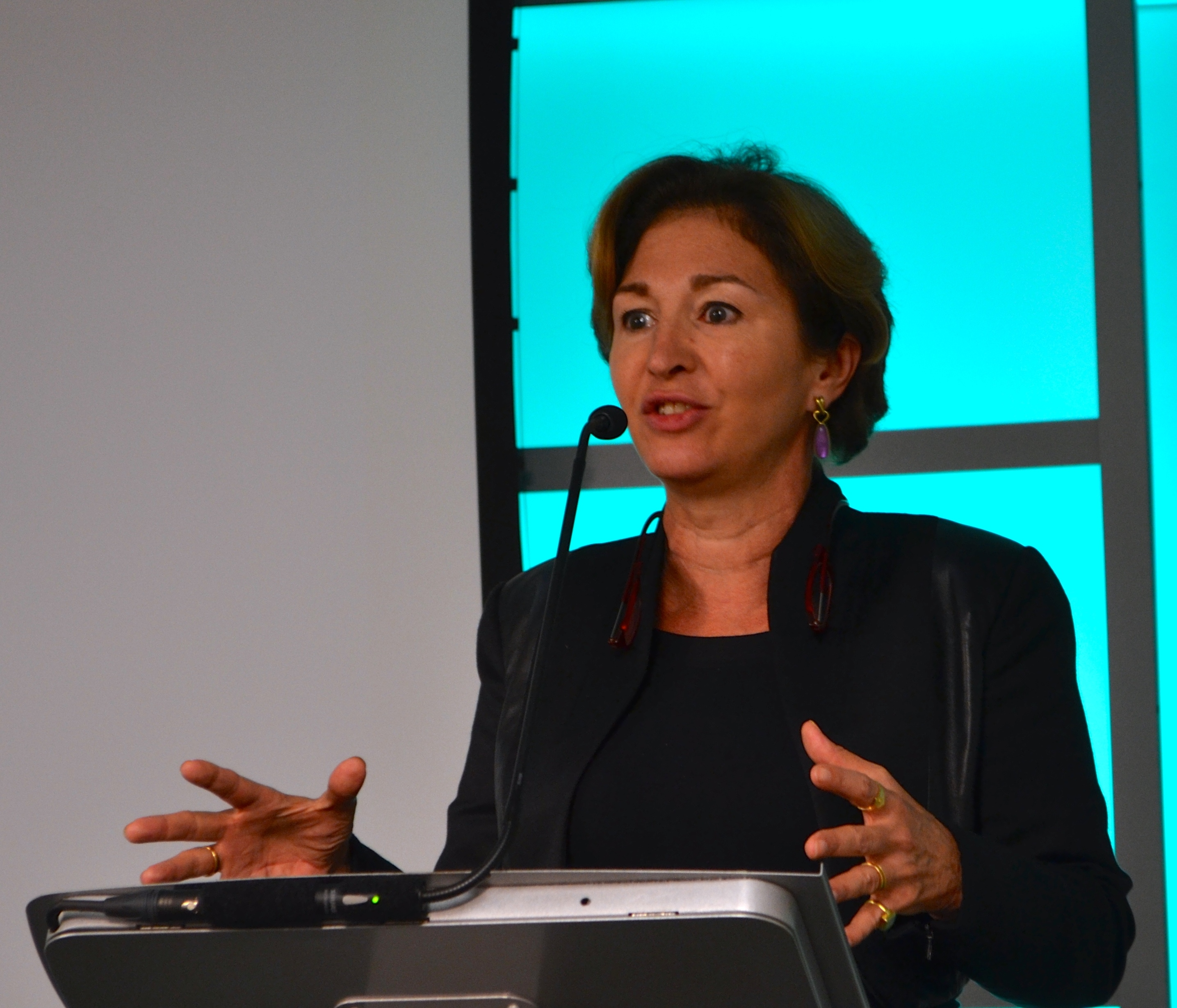 Anne Marie Slaughter, President & CEO, New America